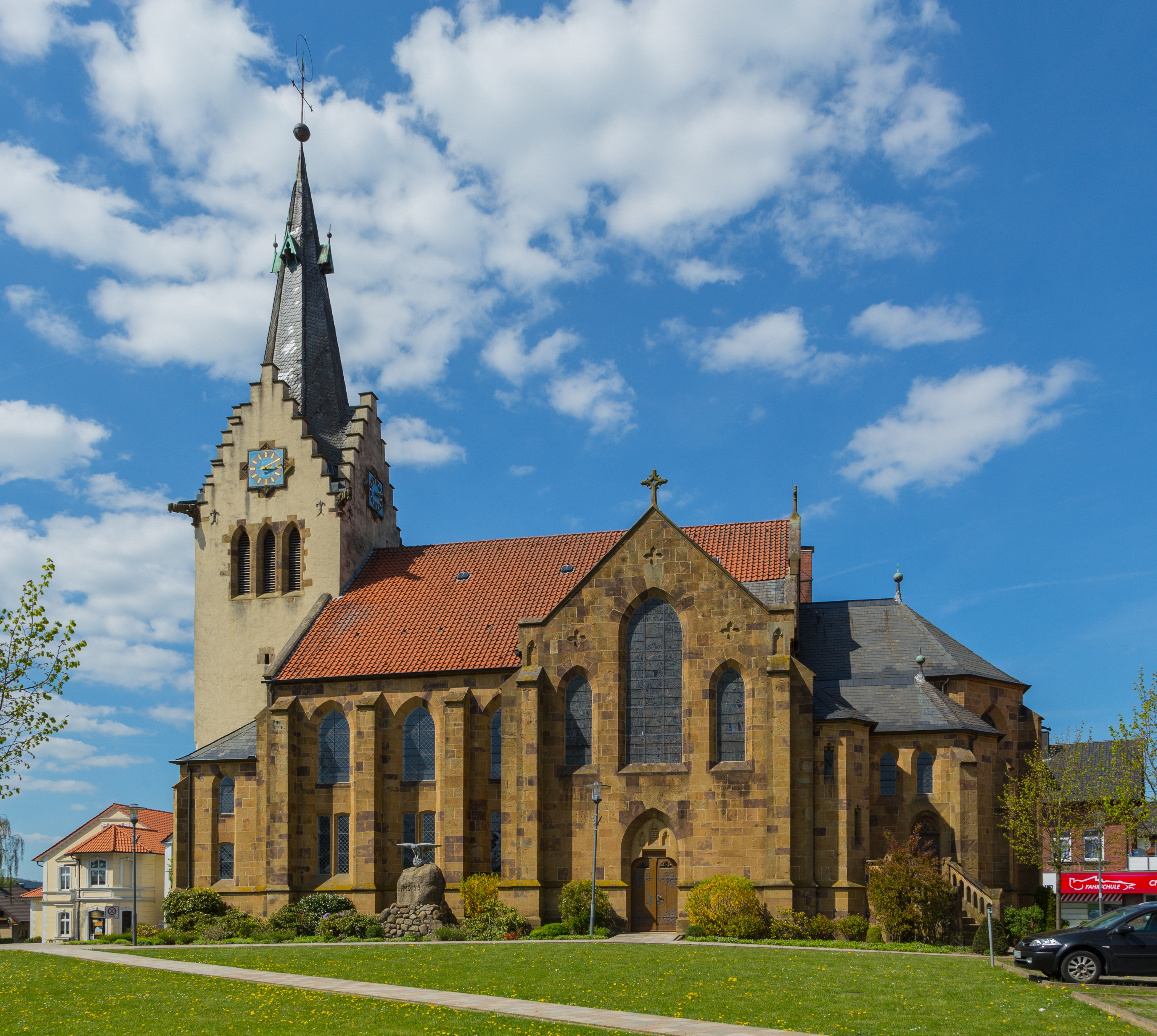 Lutheran Saint John the Baptist Church (Johannes-der-Täufer-Kirche) in Hilter am Teutoburger Wald, Landkreis Osnabrück, Lower Saxony, Germany. The church is a listed cultural heritage monument.